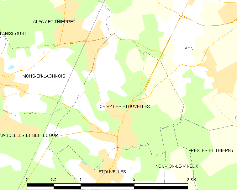 Map of French commune: Chivy-lès-Étouvelles Map commune FR insee code 02191.png